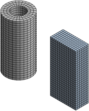 Tube (hollow cylinder) and rectangular cuboid: structured hexahedral meshing, for a study by finite elements method. The model has 25,197 nodes and 5,093 elements. Created with Ansys Mechanical, processed with The Gimp.